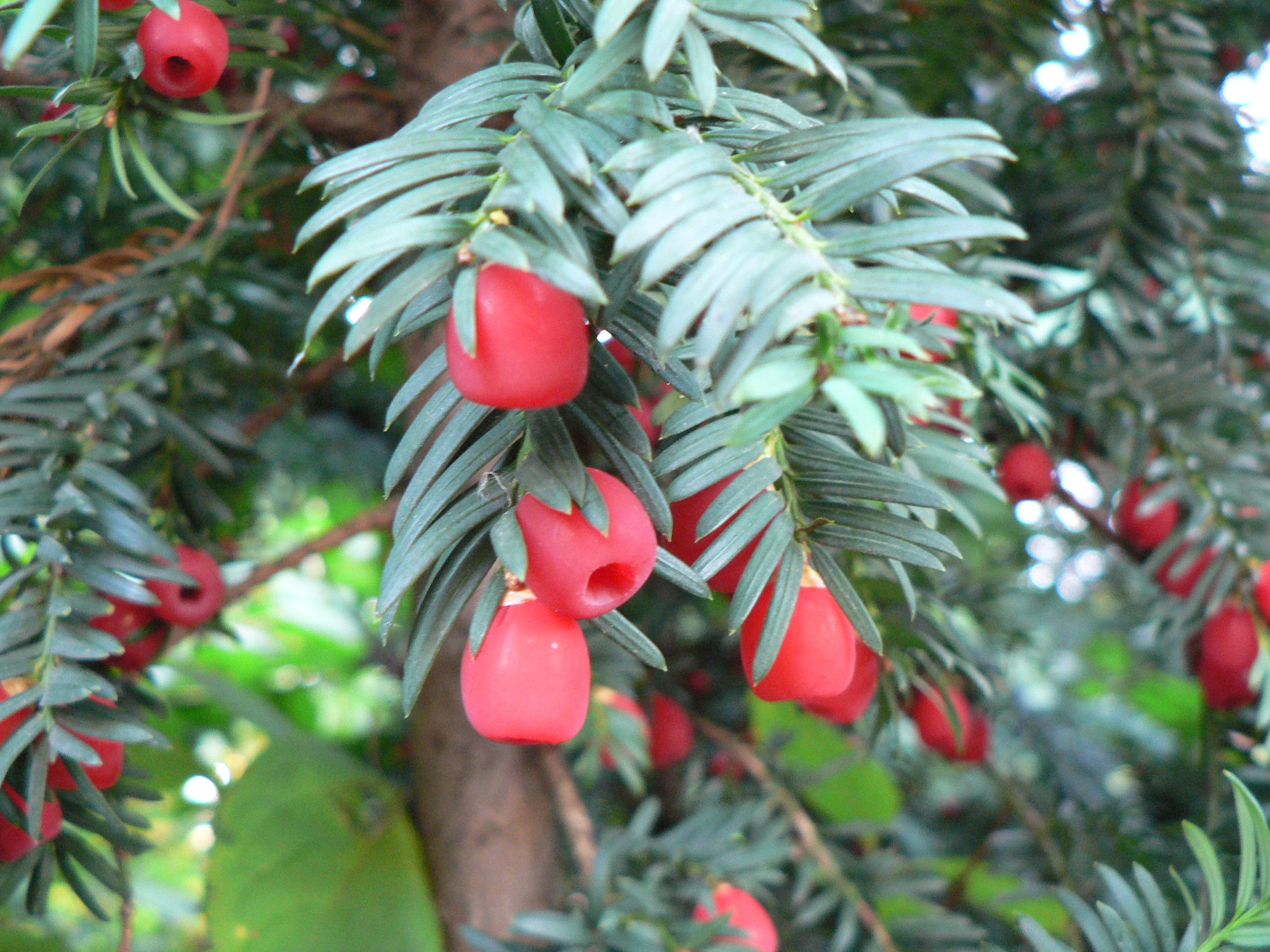 Taxus baccata - Jan-Von-Werth-Strasse, Jülich